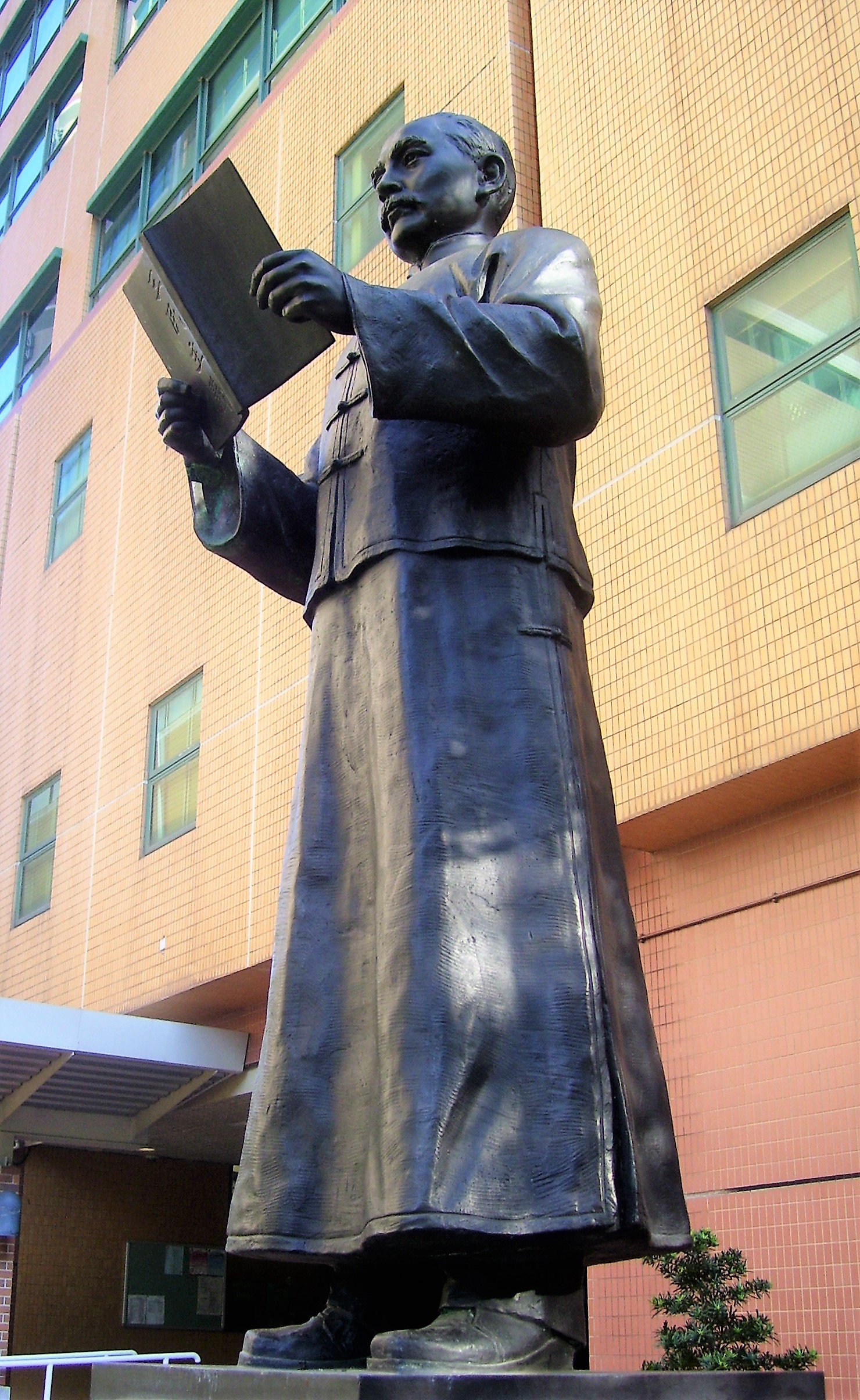 Statue of Dr Sun Yat-sen (1866-1925) at the Hong Kong Baptist University Dormitary..